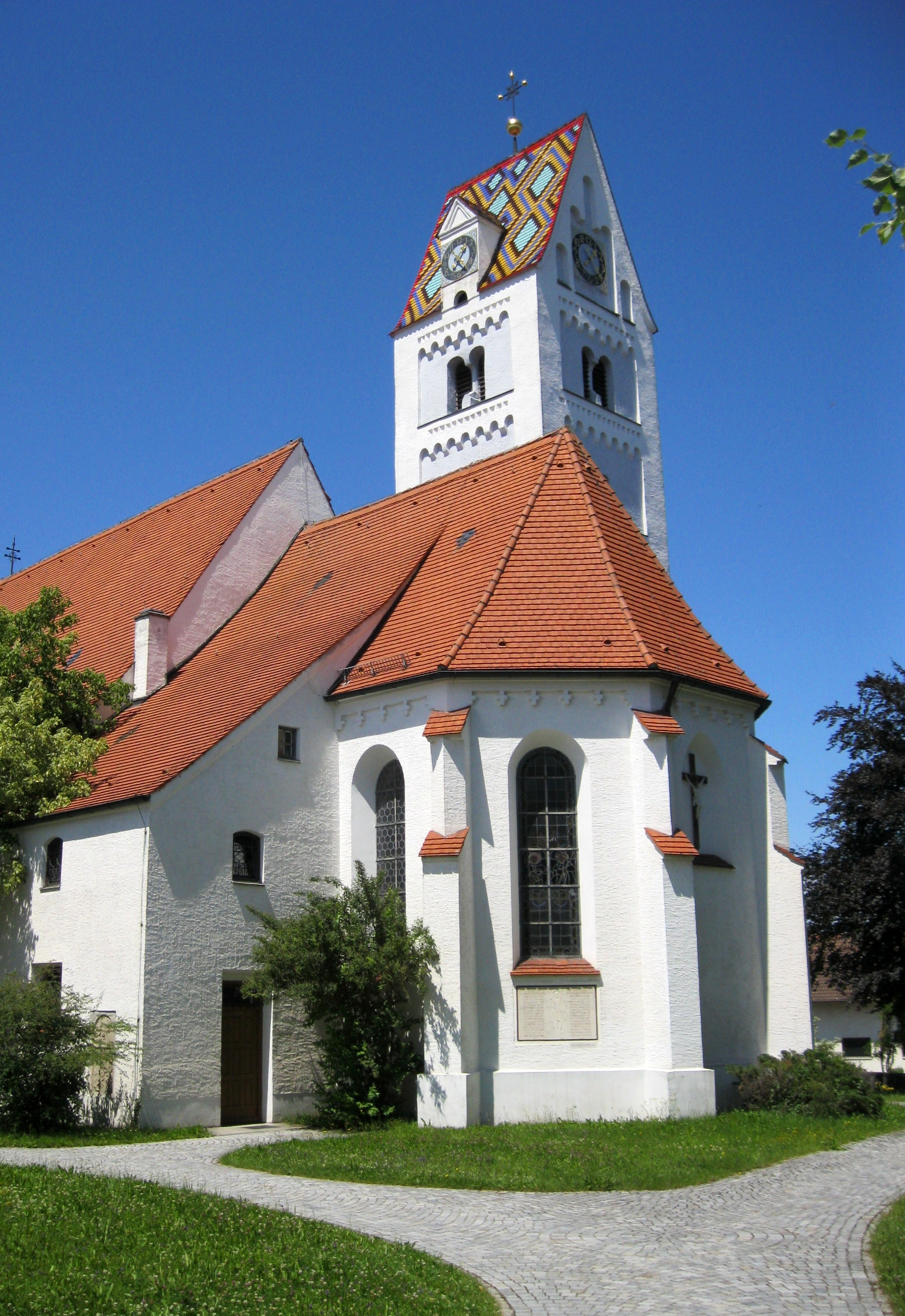 Church St. Nikolaus